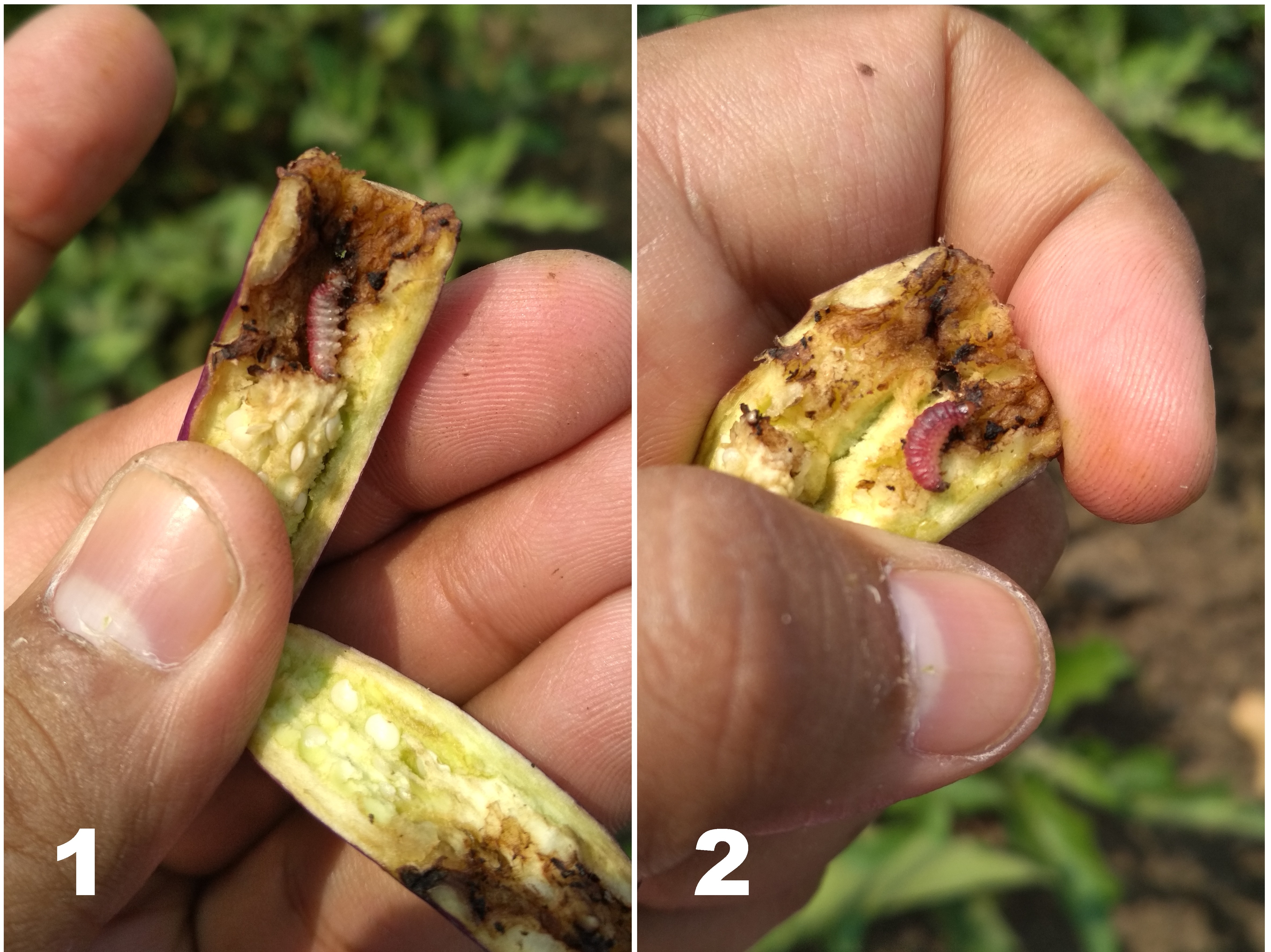 Leucinodes orbonalis (Brinjal Fruit Borer) later instar causing damage in a Brinjal Fruit by feeding